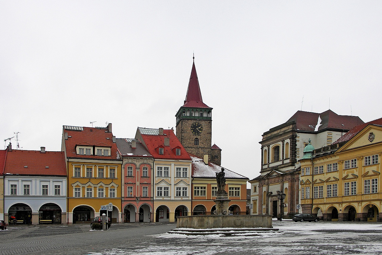 The central Wallenstein's square with the Valdice gate. The Czech Republic, the town of Jičín. Picture taken in February 2005 by David Paloch.